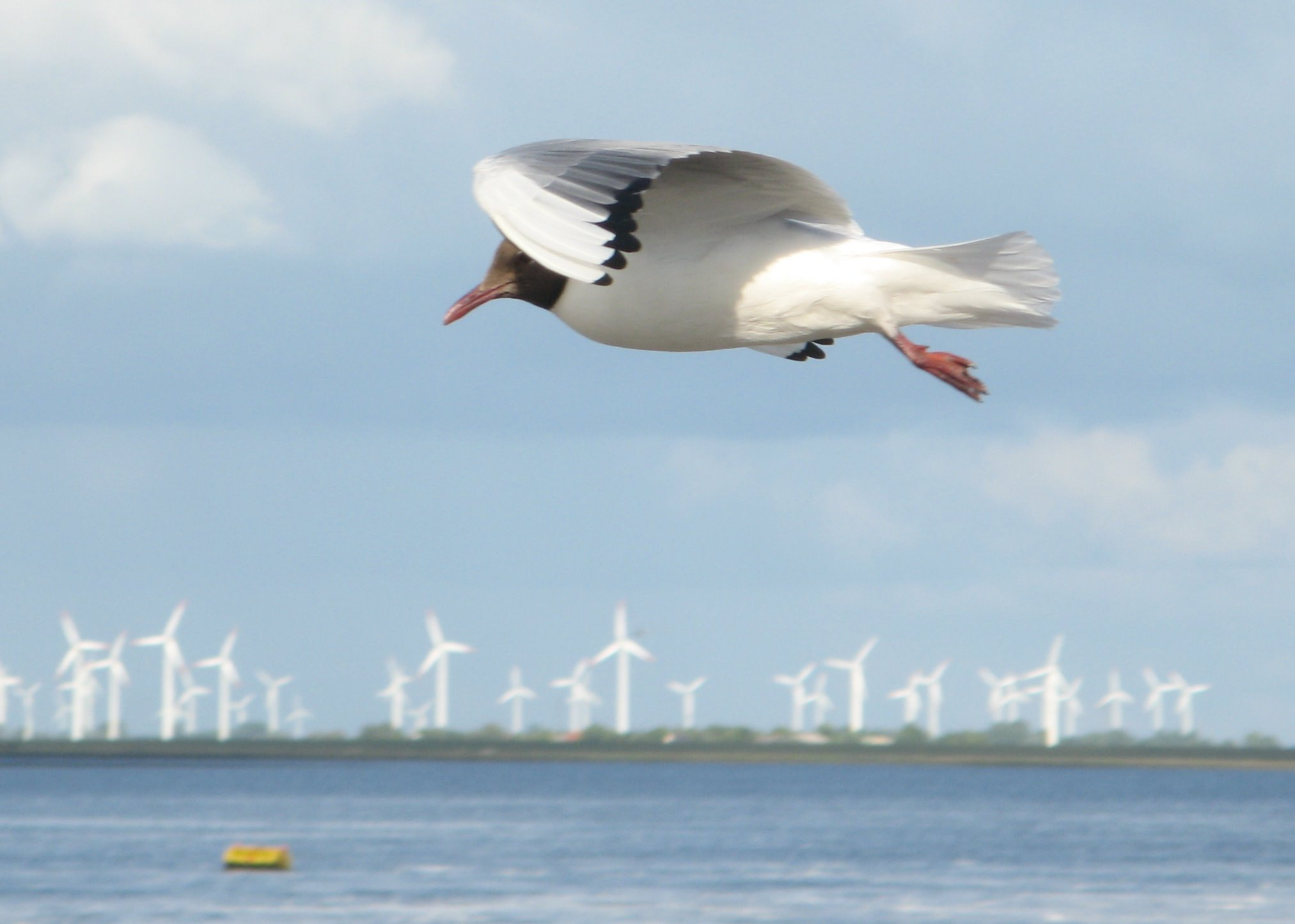 Black-headed gull (Larus ridibundus) at the Eider River, Germany